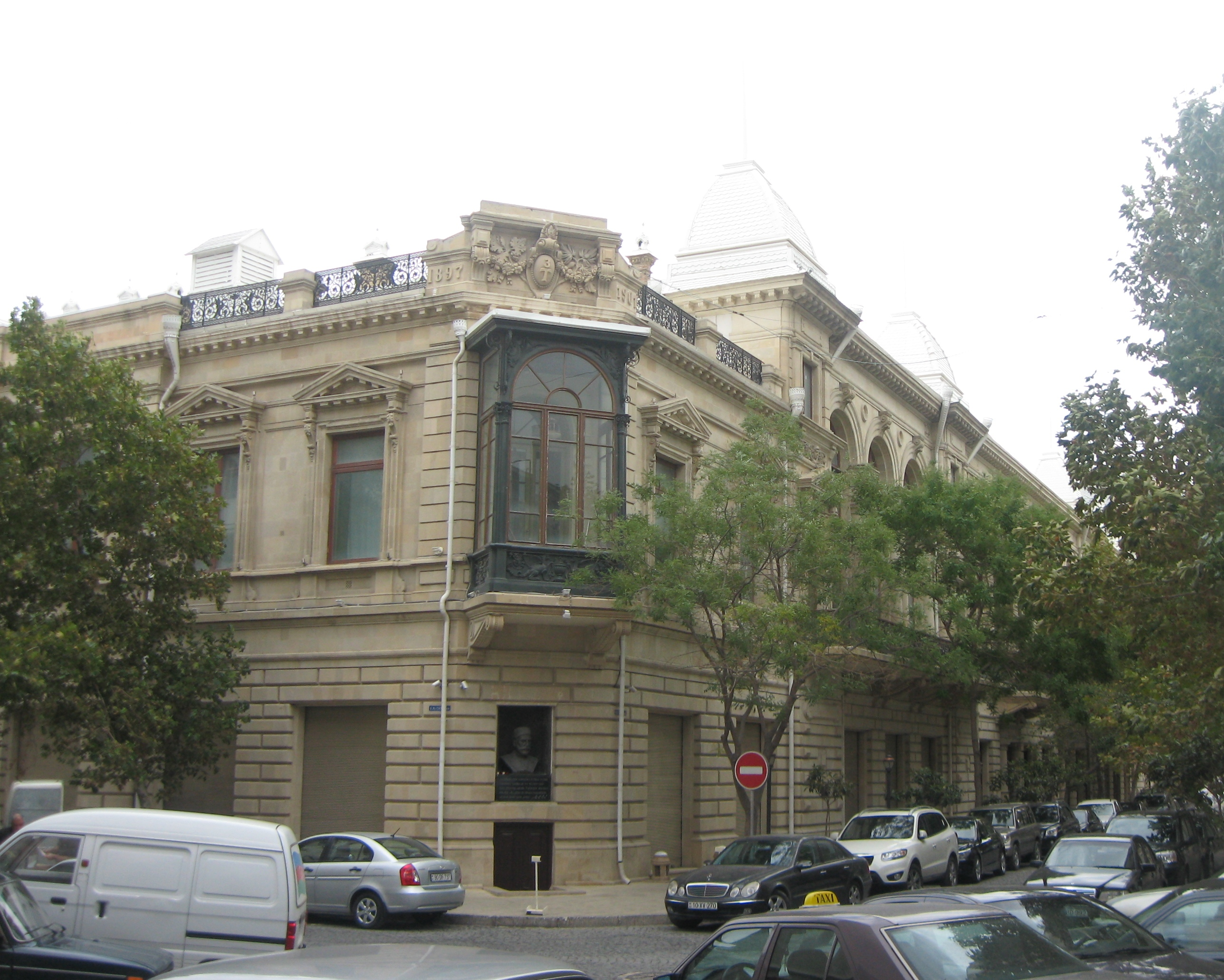 National History Museum of Azerbaijan. Baku